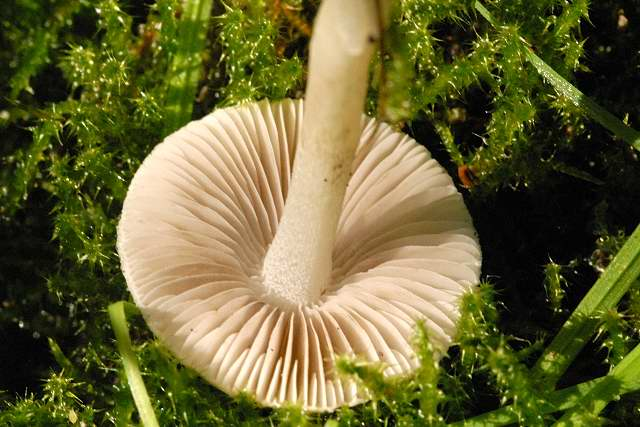 Cystolepiota seminuda from Commanster, Belgian High Ardennes .